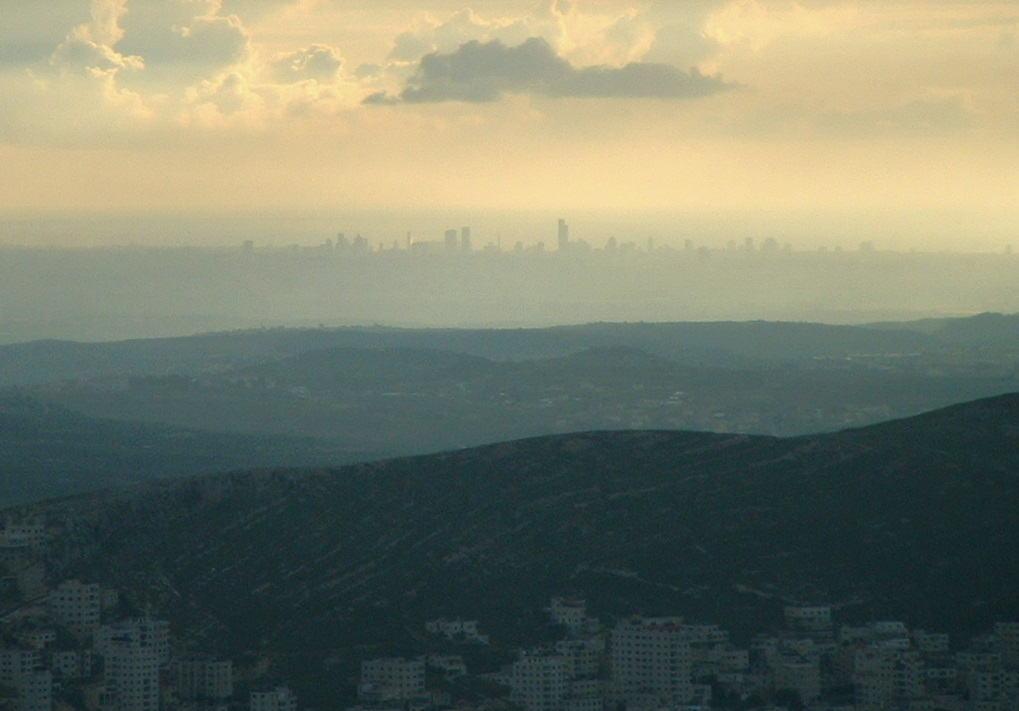 The view from mount Eival, Israel, from east to west. far buildings - Tel Aviv. on bottom - Nablus. 2006.